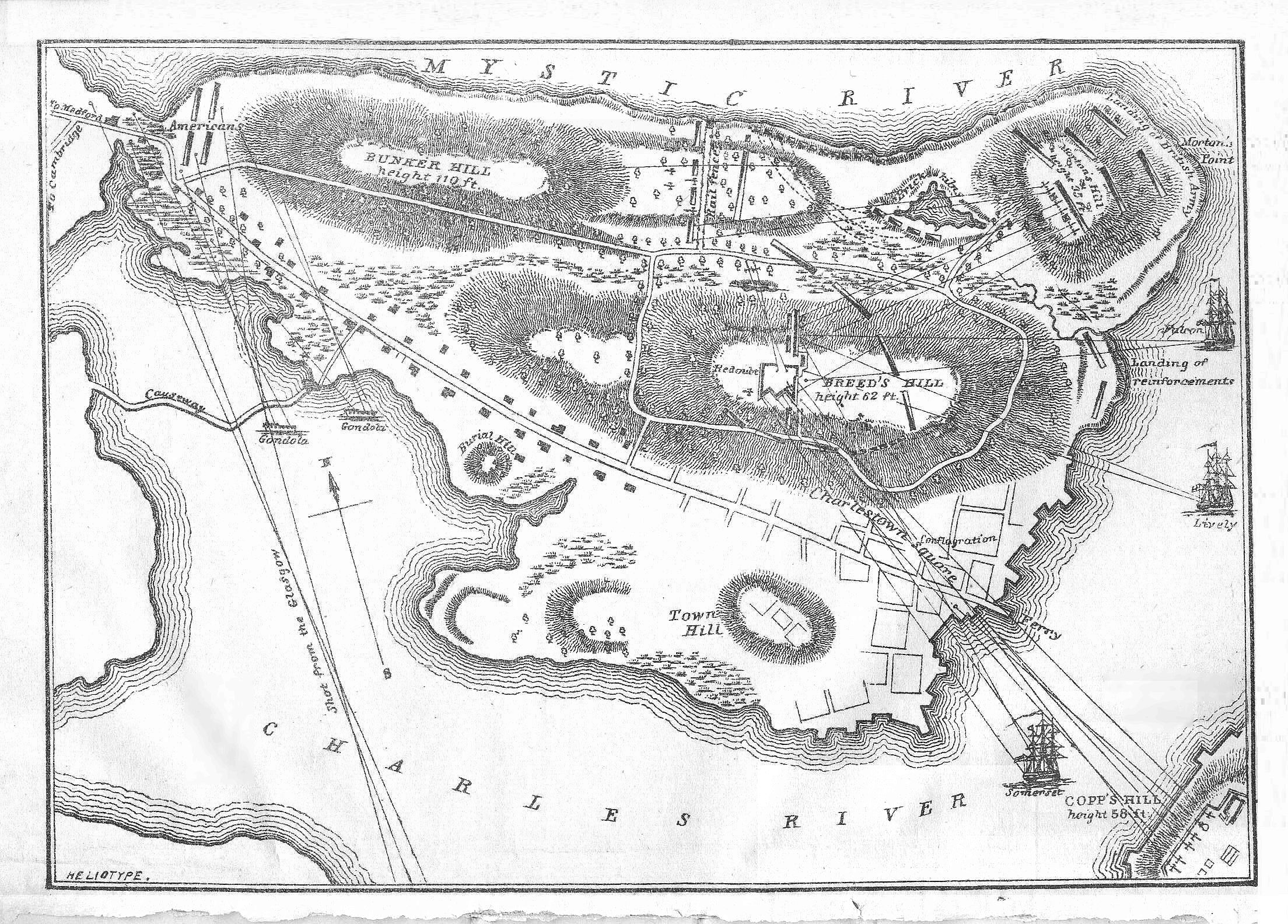 An illustrated map of the battle ground of Battle of Bunker Hill on Charlestown peninsula, encompassing Bunker and Breed's Hills. (George E Ellis. History of the Battle of Bunker's [Breed's Hill] on June 17,1775.... Boston:1875).